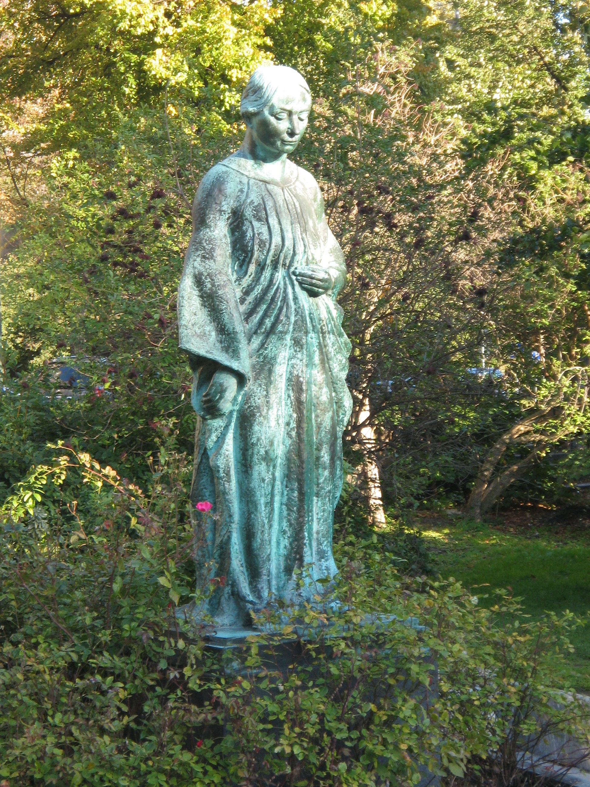 Ellen Key, bronze statue by Sigrid Fridman (1879–1963), erected 1953 in Ellen Keys park in Stockholm, Sweden